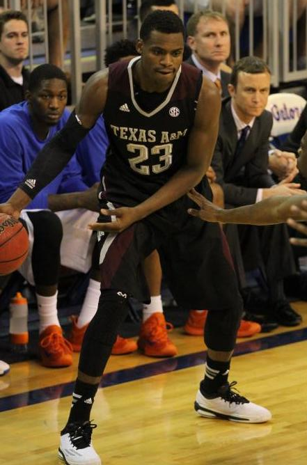 Texas A&M vs Florida Gators 2015/03/03